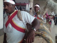 A santal man with his dram.